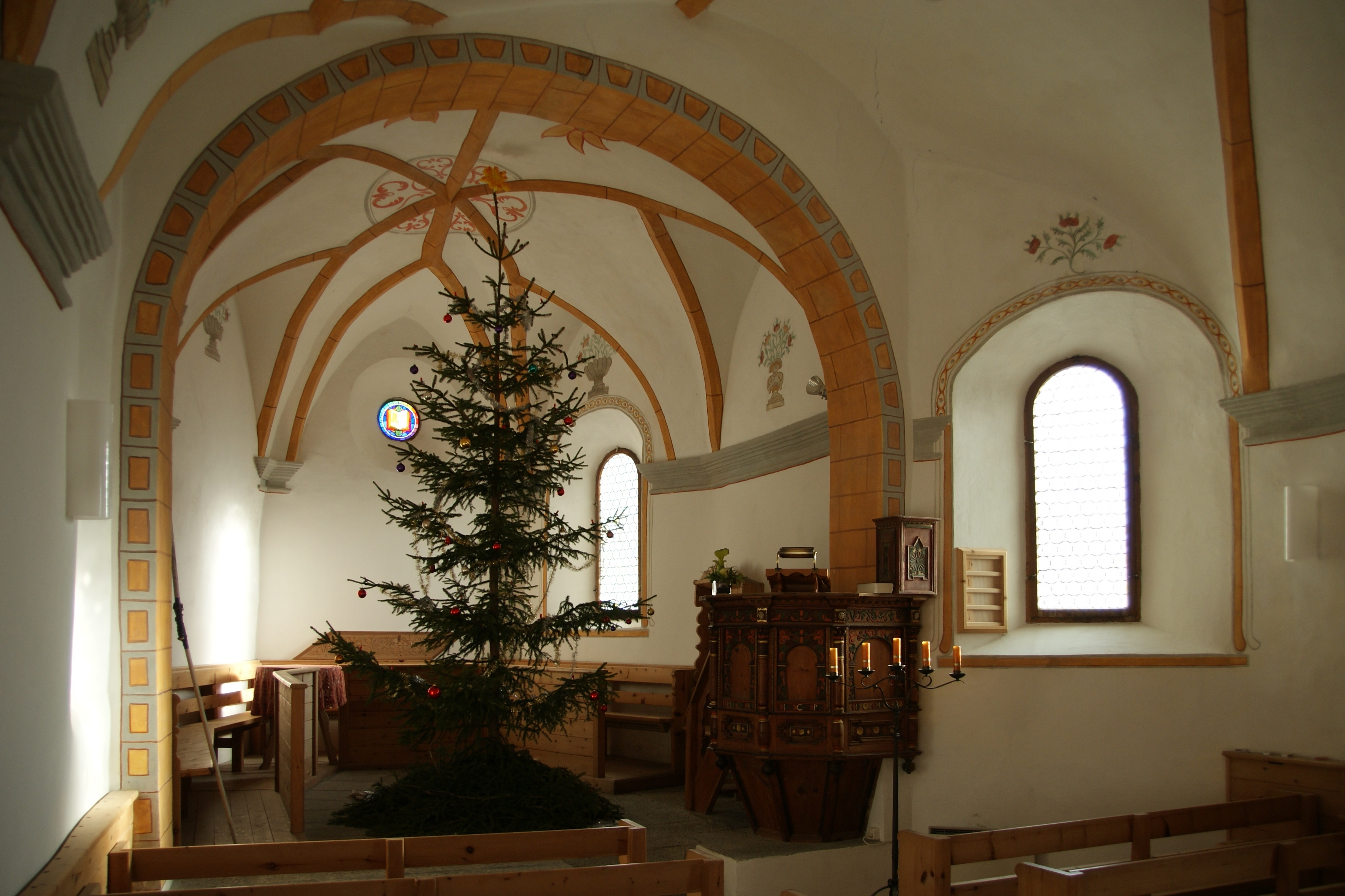 Vnà, Canton Graubünden, Switzerland